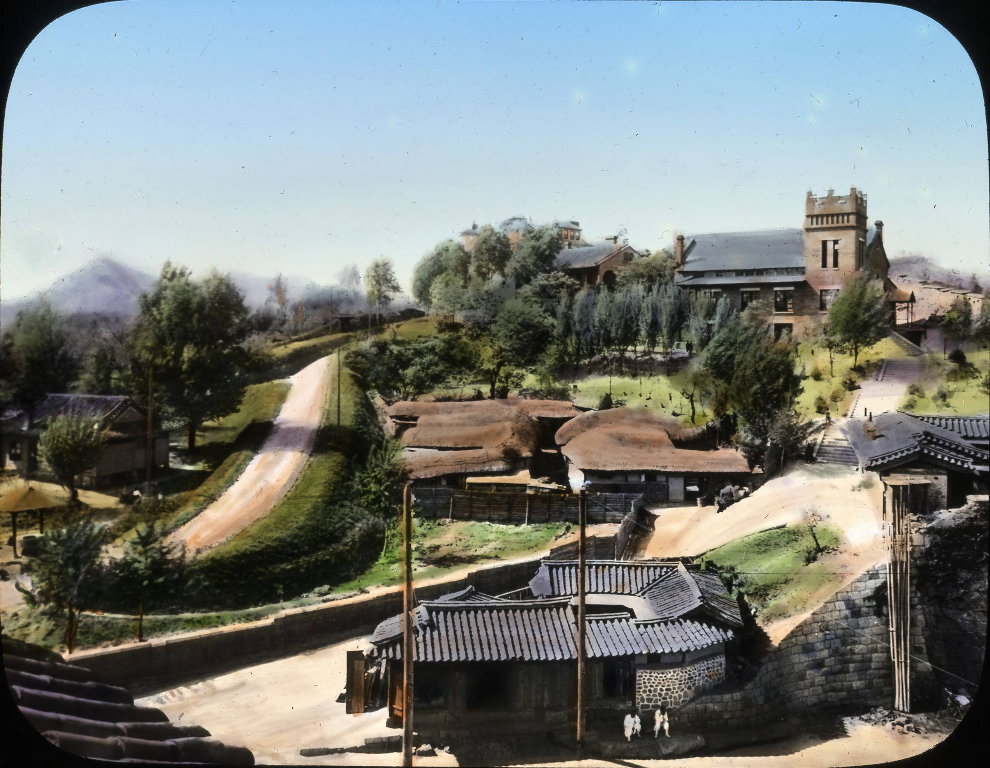 East Gate Church, Seoul, [s.d.] This chuch started in the little building which appears at the left of the road, just beyond the covered well. Its membership quickly grew to 700+, and the congregation had to worship in relays. The new church building on the hill also houses the Boy's School. Date created: 1908/1922 Publisher (of the Digital Version): University of Southern California. Libraries Repository Name: Methodist Church (U.S.) Legacy Record ID: kda-m132 Photographer: Methodist Episcopal Church Format: photograph Rights: "Neither the General Conference nor any General Agency of The United Methodist Church (successor to the Methodist Episcopal Church) claims any interest in the photos or images." Part of subcollection: The Reverend Corwin & Nellie Taylor Collection Coverage date: 1908/1922 Contributing entity: University of Southern California Repository Address: Nashville, Tennessee Part of collection: Korean Digital Archive Donor: Taylor, Ewing Bevard Filename: Taylor_box21num65a; Taylor_box21num65b Type: images Geographic Subject (City or Populated Place): Seoul Geographic Subject (Country): Korea Compiler: Taylor, Corwin; Blood-Taylor, Nellie